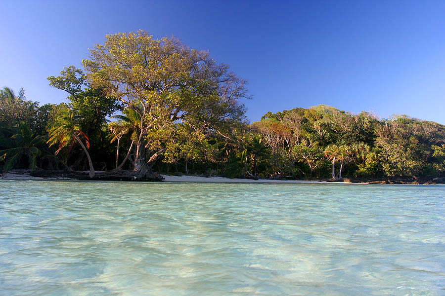 The beach at the southeast side of Île aux Nattes (Nosy Nanto), Madagascar.